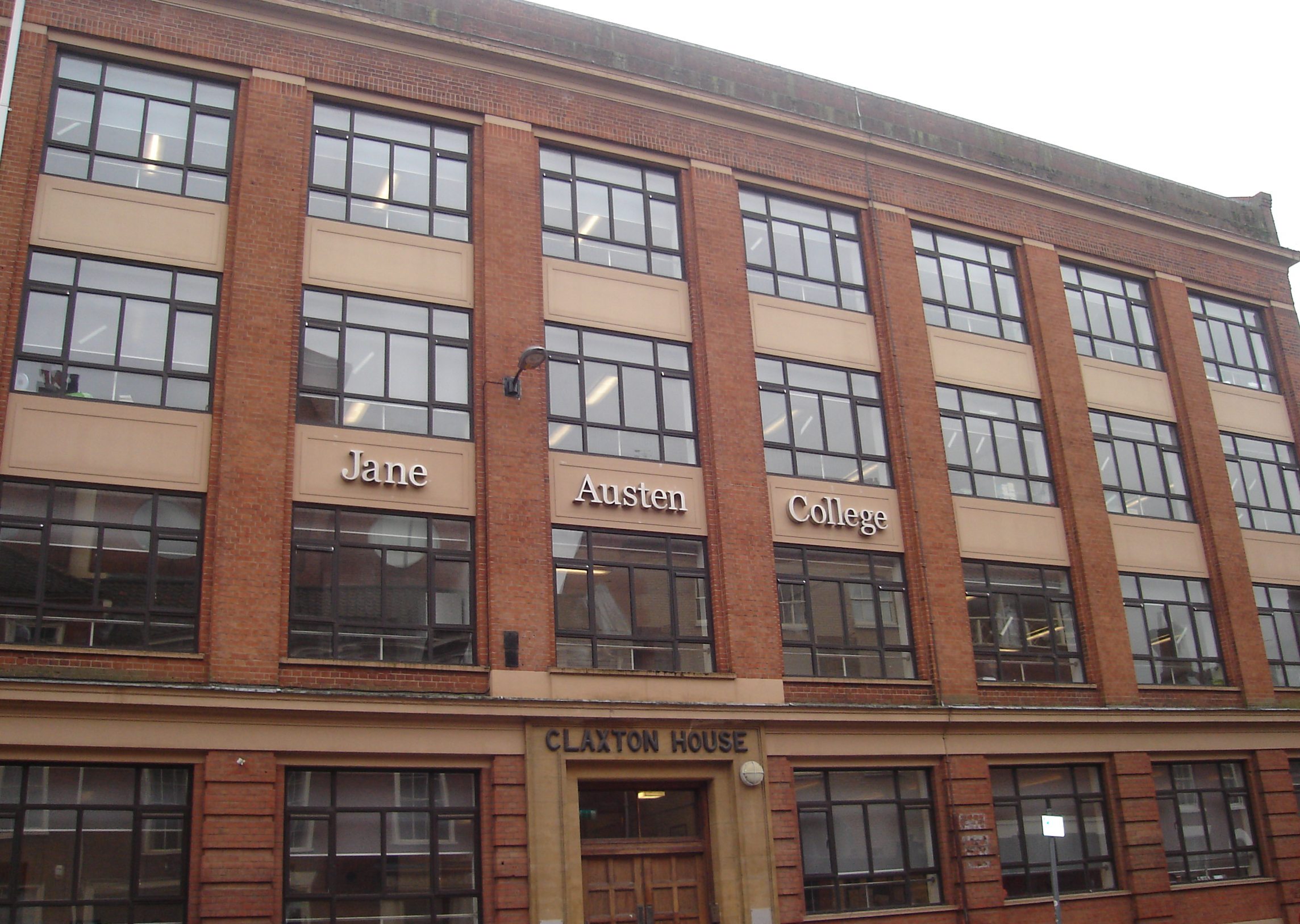 A picture of the Jane Austen College, Norwich is located in the city at Colegate